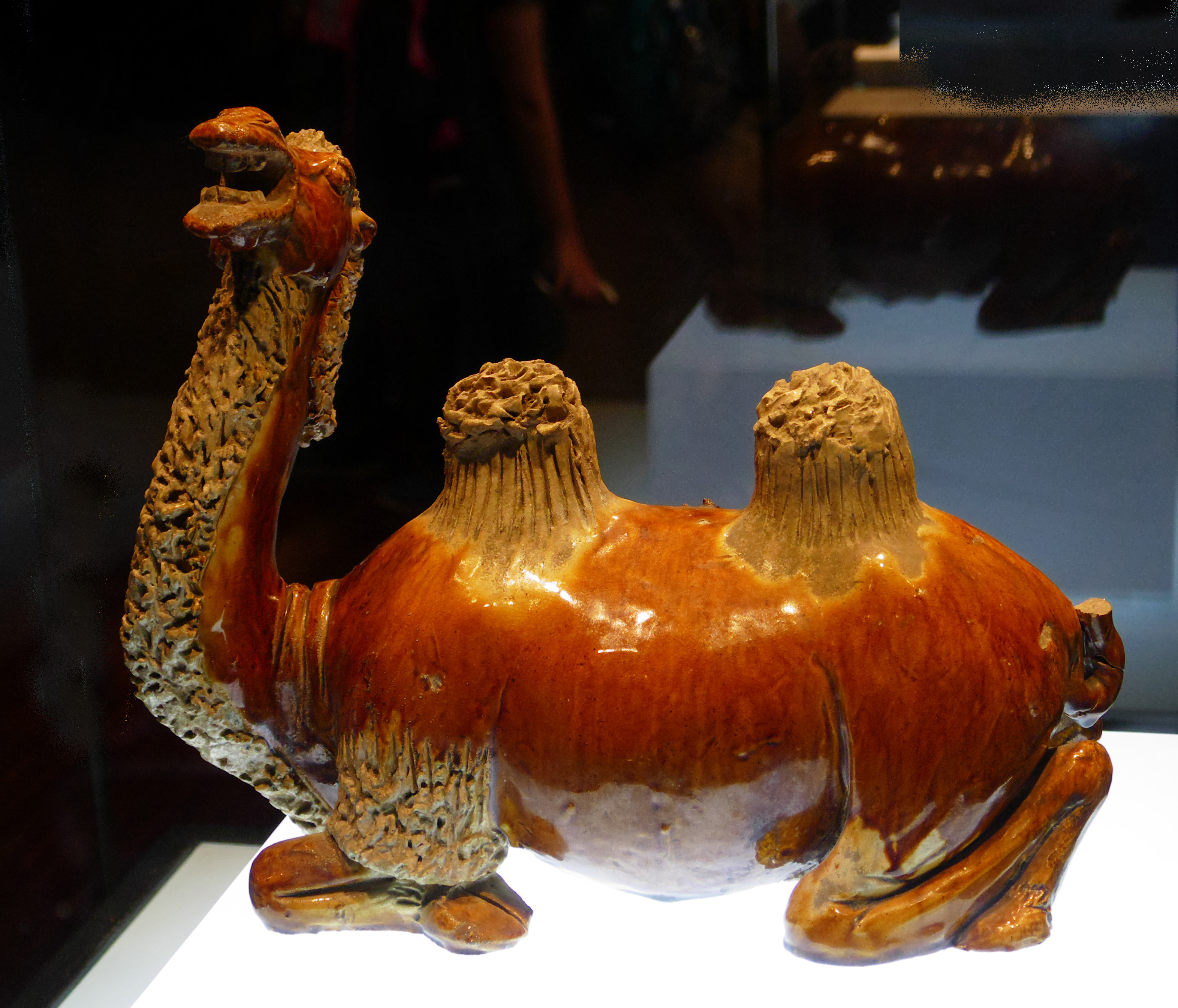 Tri-colored Crouching Camel – Tang Dynasty (618-907 A.D.)